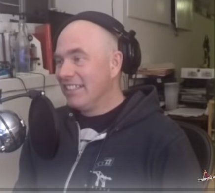 Scottish astrophysicist and YouTuber Scott Manley during a YouTube livestream of Kerbal Space Program.